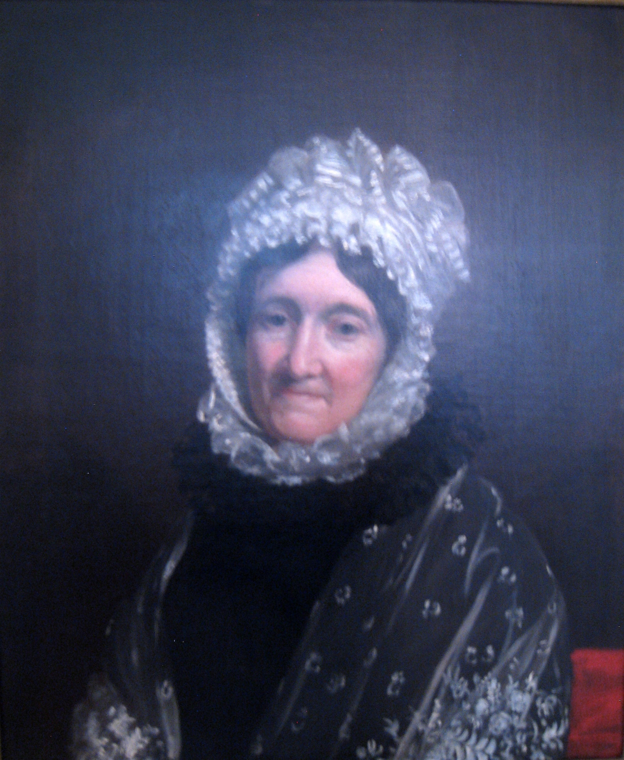 Priscilla Scollay Melville (1755-1833) by Francis Alexander, c. 1826-1828 - Old State House Museum, Boston, Massachusetts, USA. She was Herman Melville's grandmother.